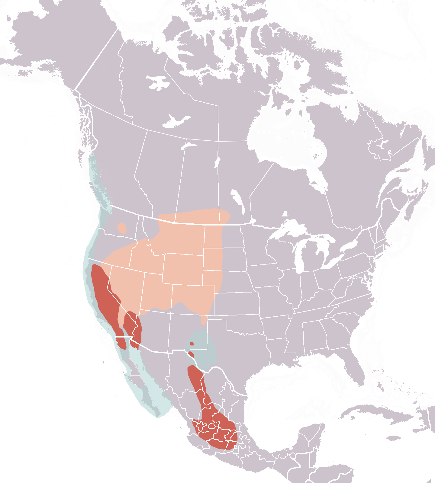 Clark's Grebe Distribution Map